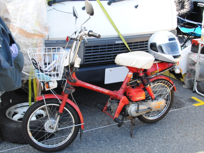 Honda Roadpal